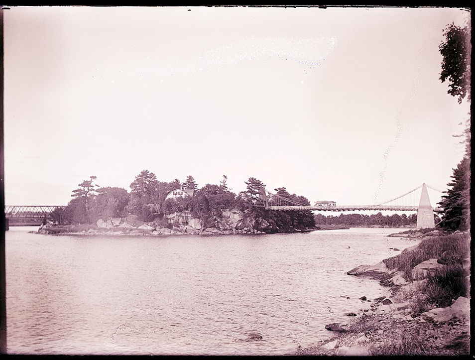 Early glass negative of a trolley on the Chain Bridge. This is the positive image of the scanned negative.